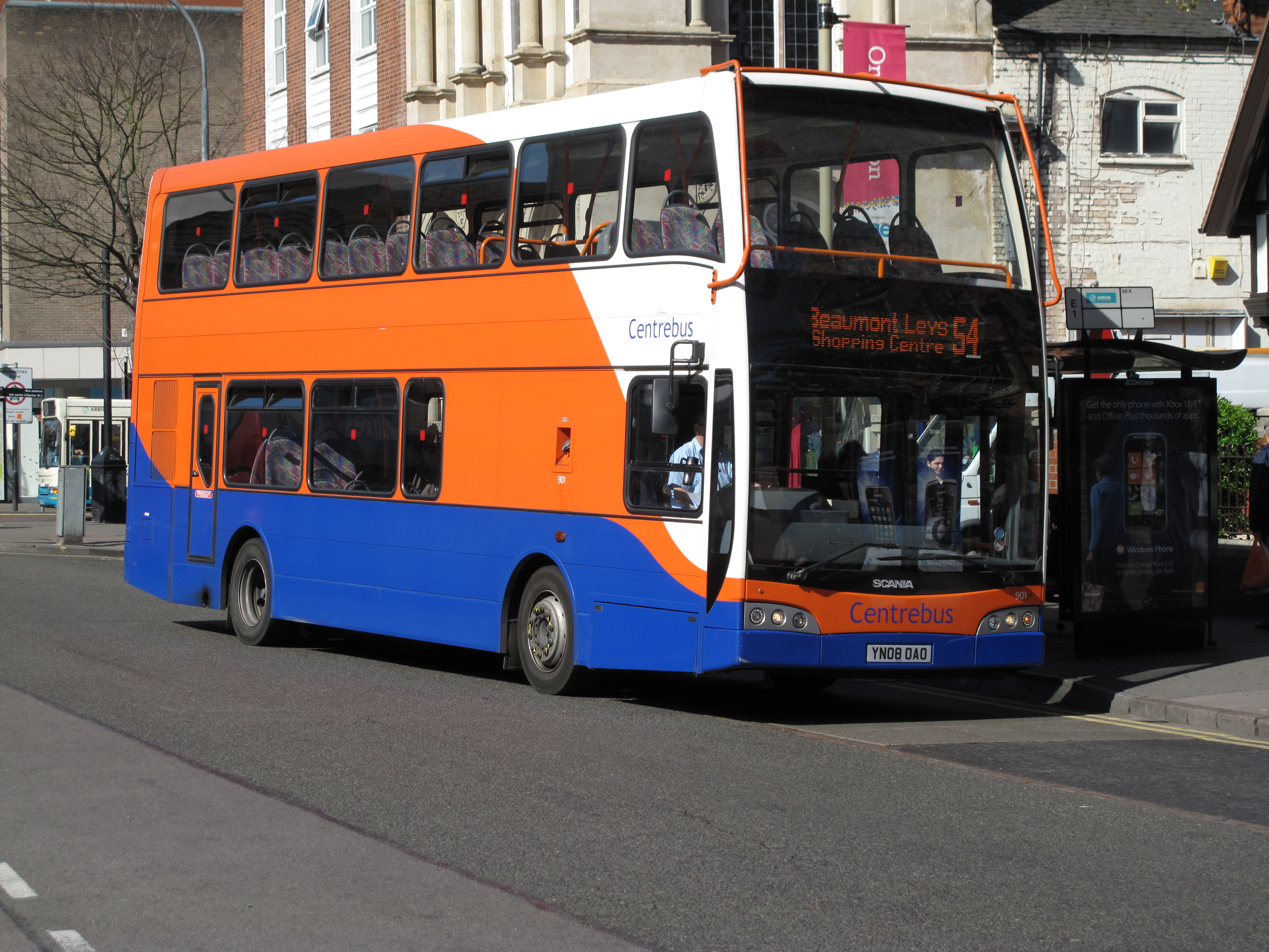 A Centrebus bus on route 54 in Leicester. It is a Scania N230UD with Olympus body, registration mark YN08 OAD.